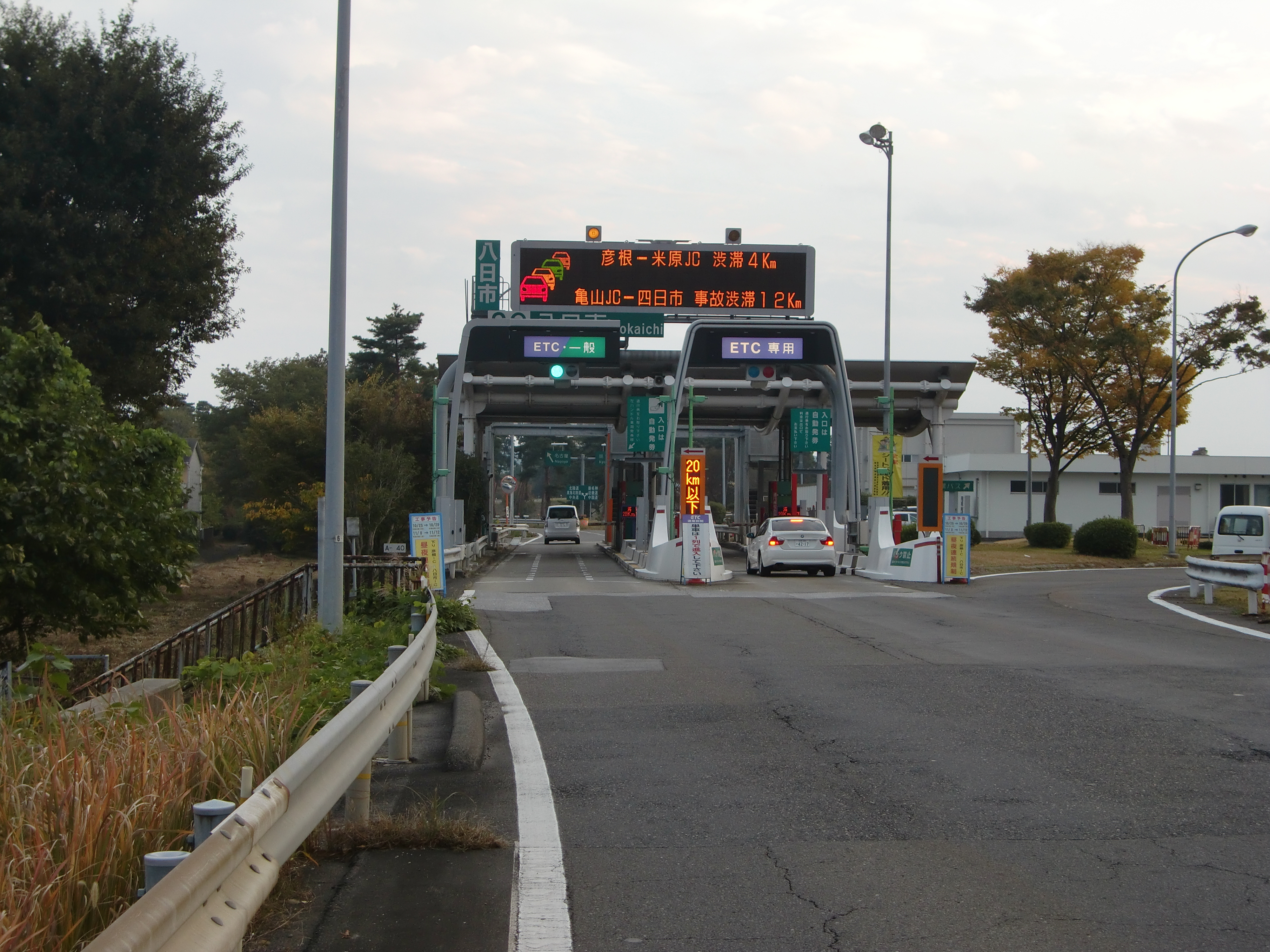 Yokaichi InterChange.